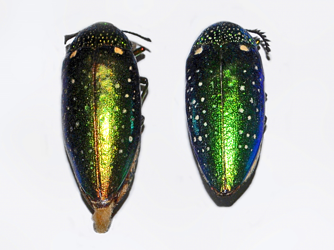 Sternocera sternicornis. Mounted specimen. On display at the Civico Museo di Storia Naturale di Trieste